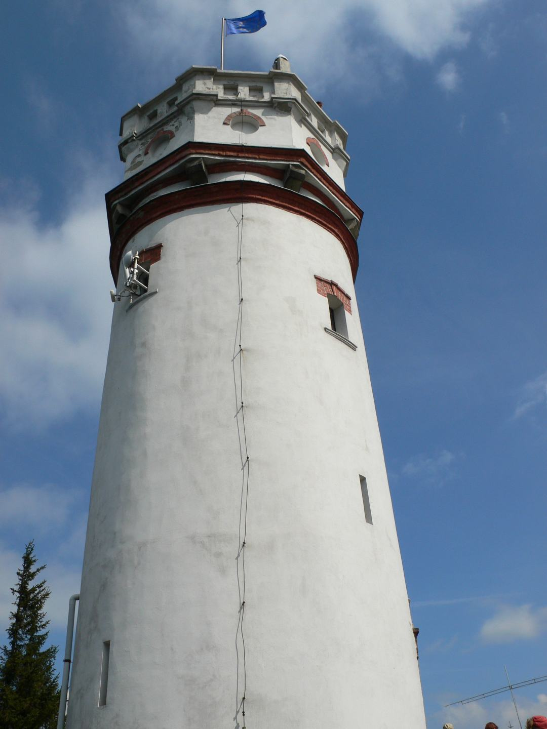 A photo of Biskupská kupa lookout tower